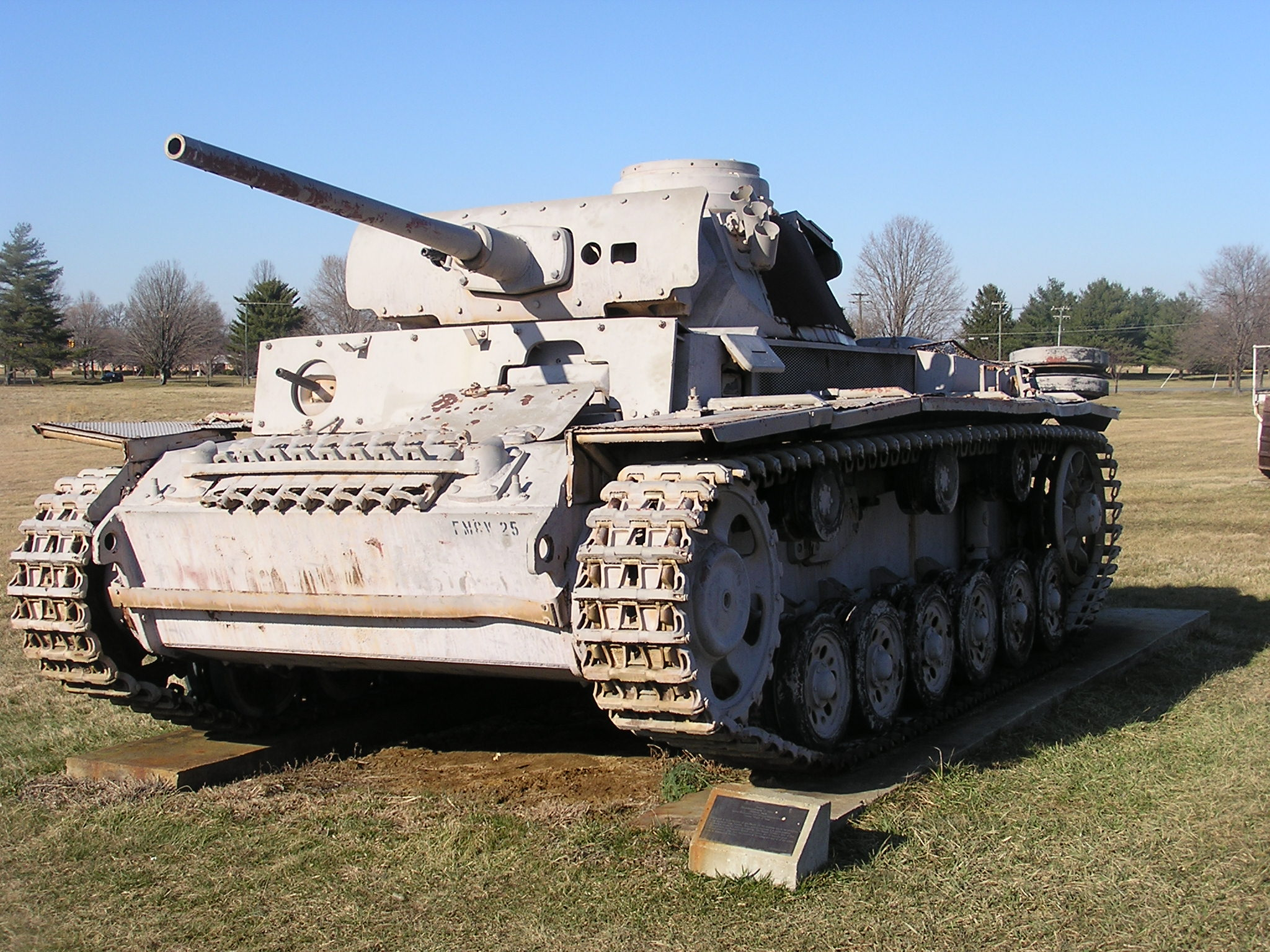 Taken at Aberdeen Proving Ground